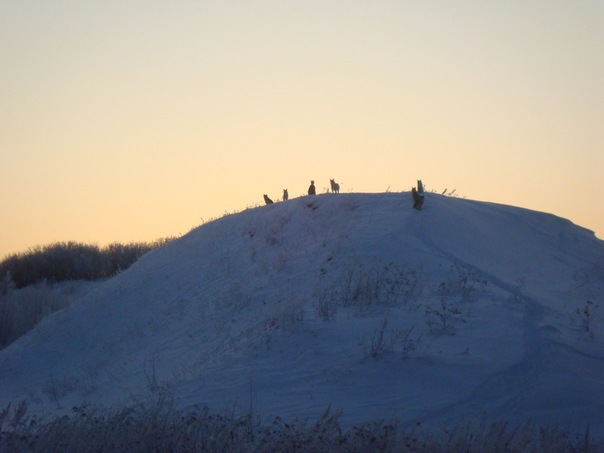 Qarama hill of Iske Chachkab